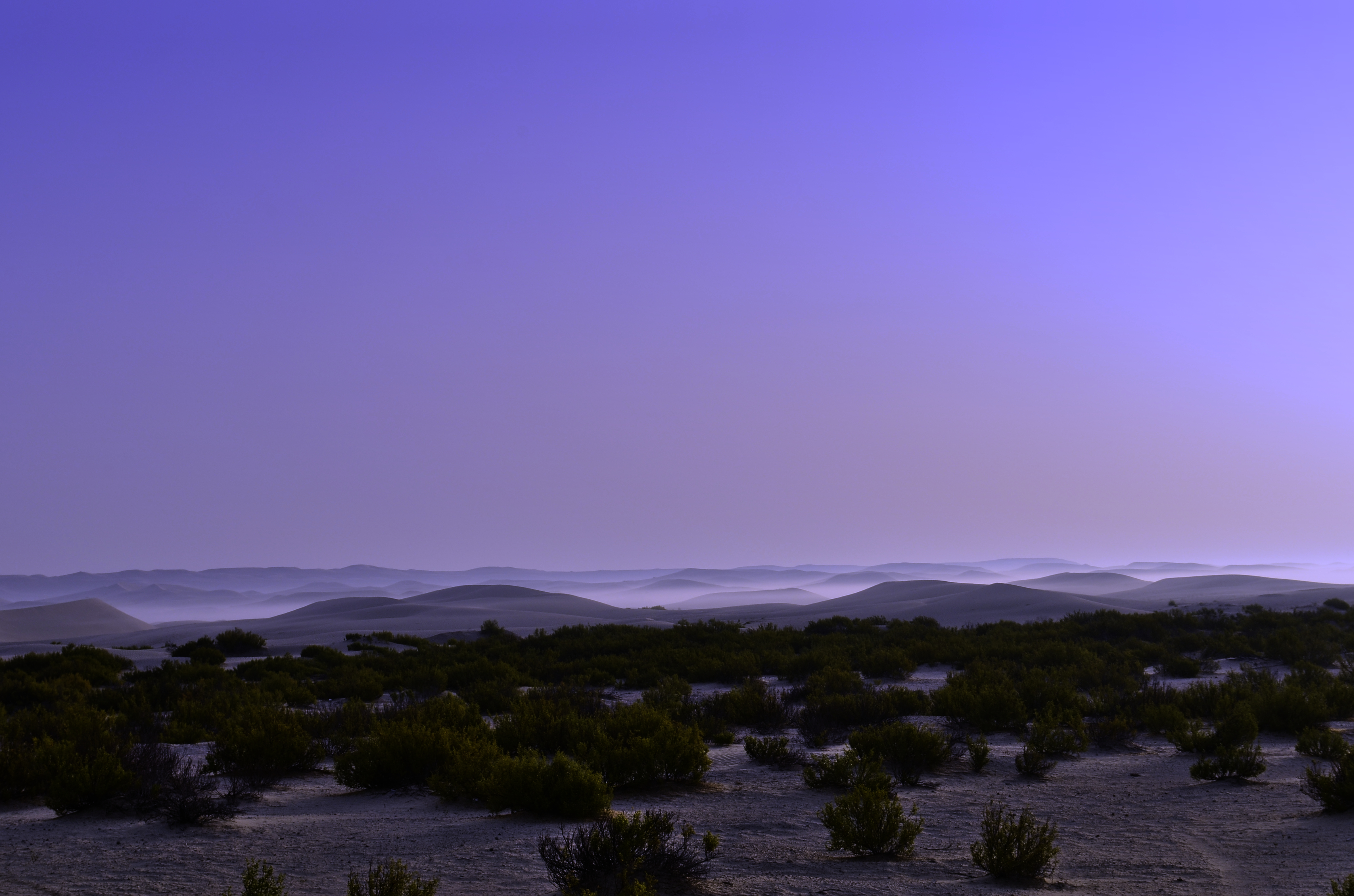 Morning fog in the deserts of Western region